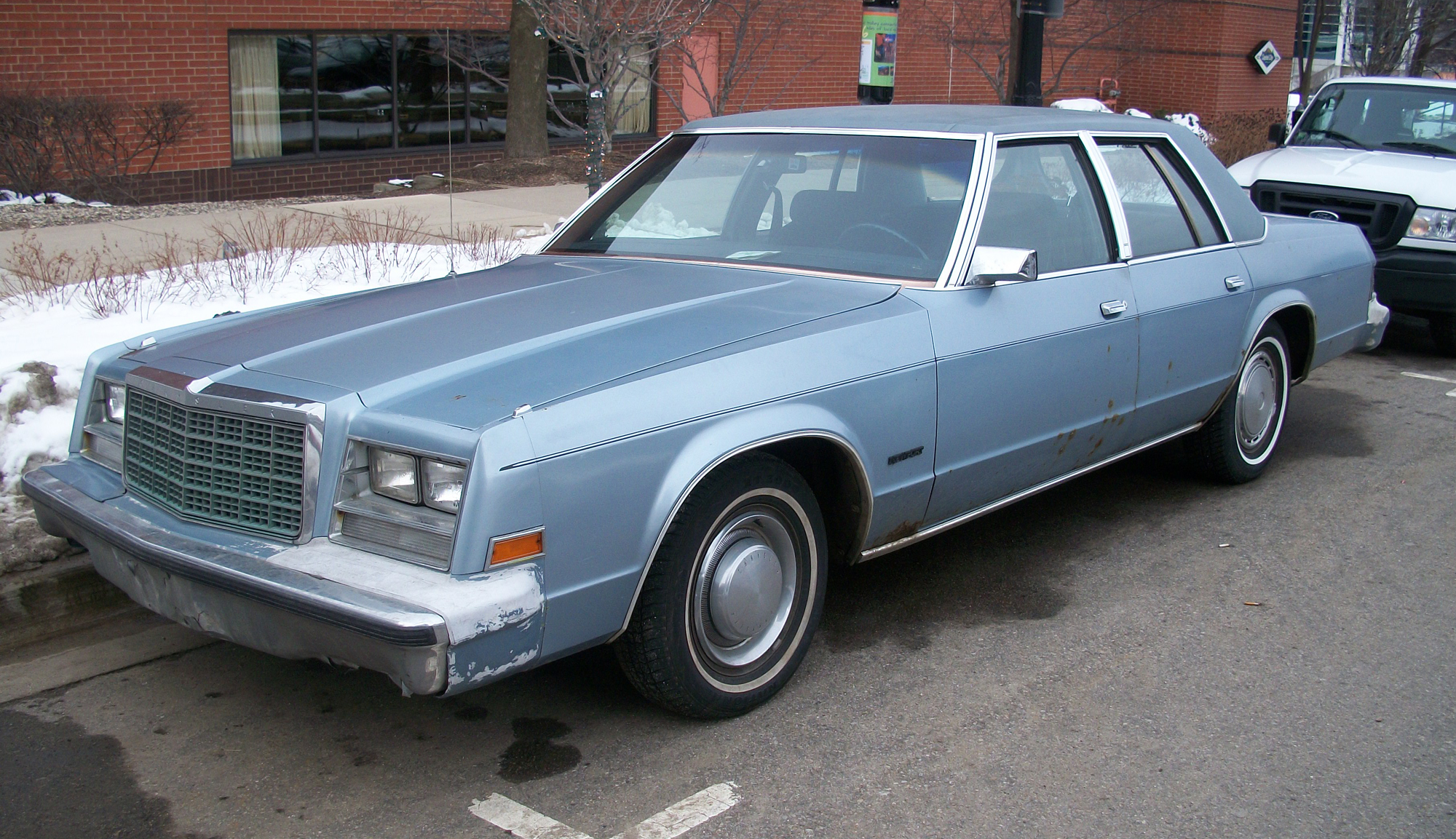 1979-1981 Chrysler Newport